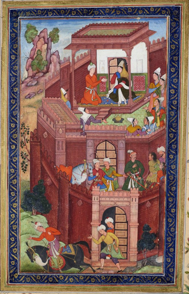 The "Memoirs of Babur" or Baburnama are the work of the great-great-great-grandson of Timur (Tamerlane), Zahiruddin Muhammad Babur (1483-1530). The Baburnama tells the tale of the prince's struggle first to assert and defend his claim to the throne of Samarkand and the region of the Fergana Valley. After being driven out of Samarkand in 1501 by the Uzbek Shaibanids, he ultimately sought greener pastures, first in Kabul and then in northern India, where his descendants were the Moghul (Mughal) dynasty ruling in Delhi until 1858. The miniatures are from an illustrated copy of the Baburnama prepared for the author's grandson, the Mughal Emperor Akbar. It is worth remembering that the miniatures reflect the culture of the court at Delhi; hence, for example, the architecture of Central Asian cities resembles the architecture of Mughal India. Nonetheless, these illustrations are important as evidence of the tradition of exquisite miniature painting which developed at the court of Timur and his successors. Timurid miniatures are among the greatest artistic achievements of the Islamic world in the fifteenth and sixteenth centuries. Illustrations of Mughals from the Baburnama